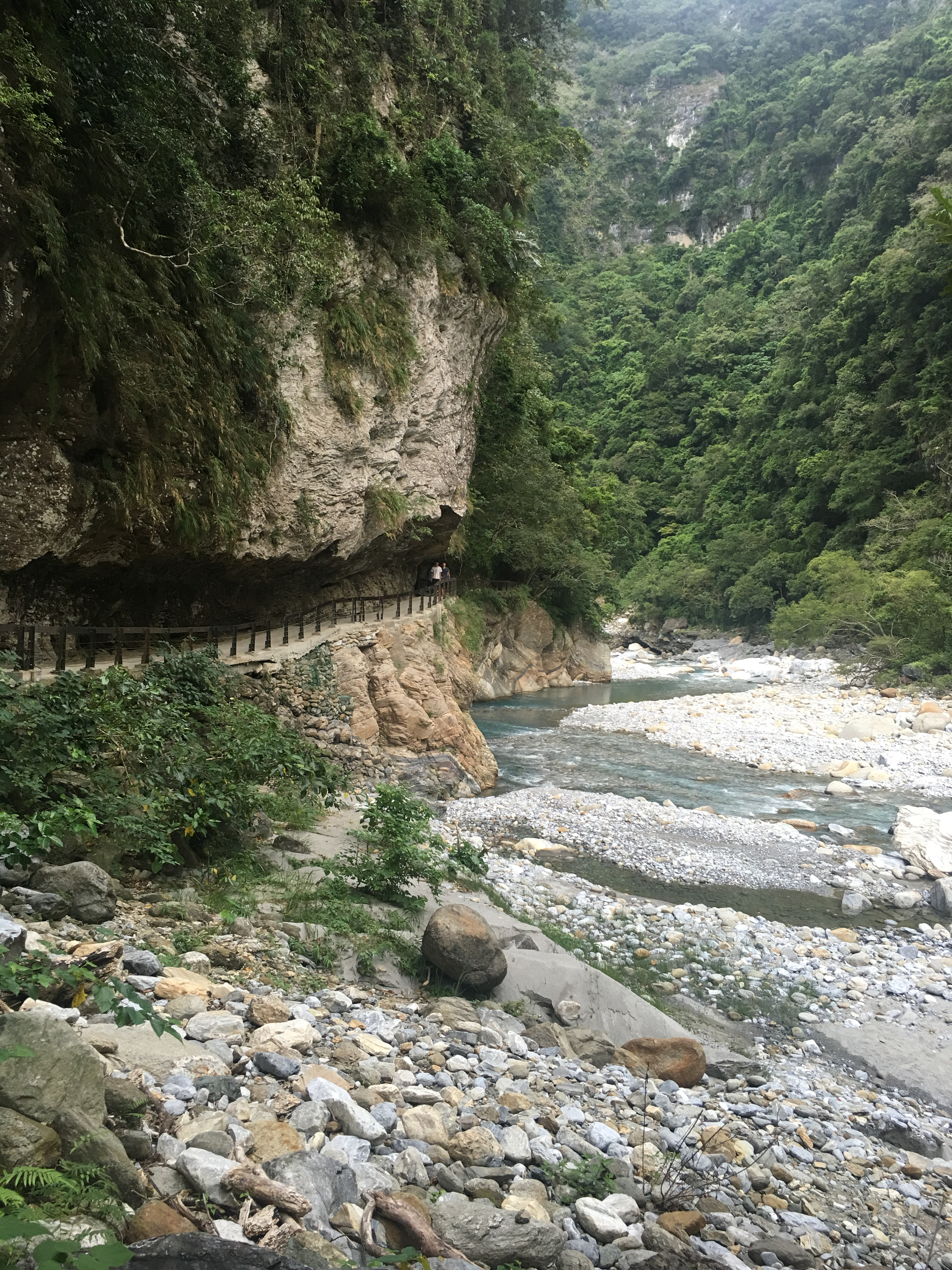 Shakadang Trail and Shakadang River at Taroko National Park, Taiwan